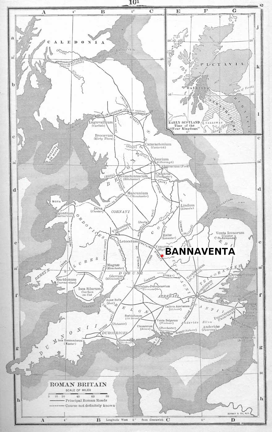 Map from Image:Romanbritain.jpg